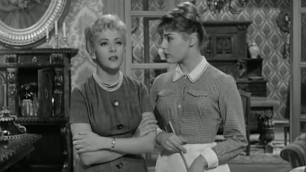 Silvia Pinal and Elke Sommer in the italian film "Uomini e Nobiluomini" (1959).